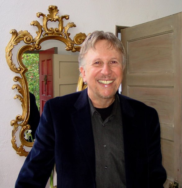 Villa Finzi Continas, (Russian Hill) November, 2007